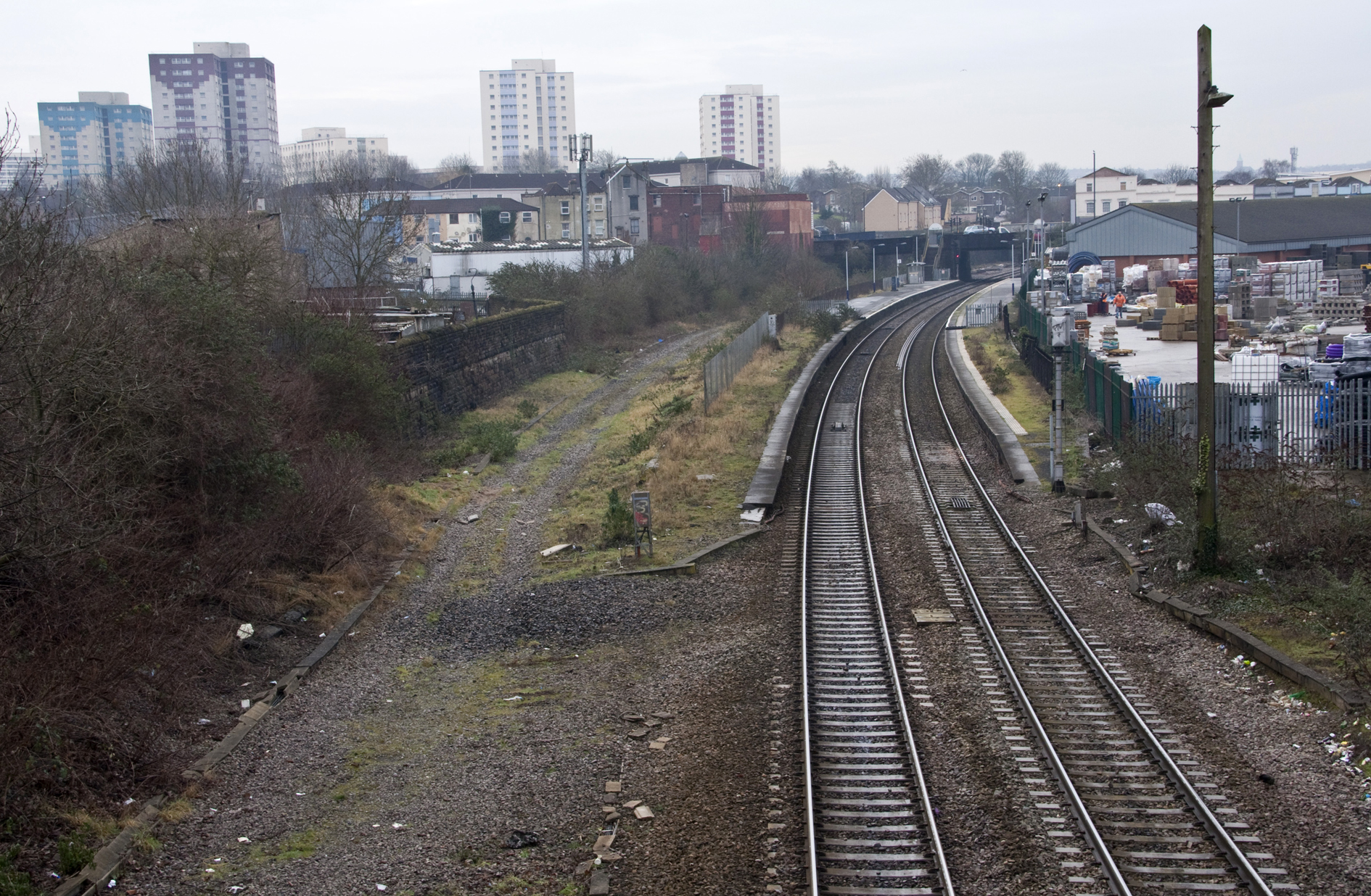 Lawrence Hill railway station in Bristol, viewed from the old Bristol to Gloucester railway line.